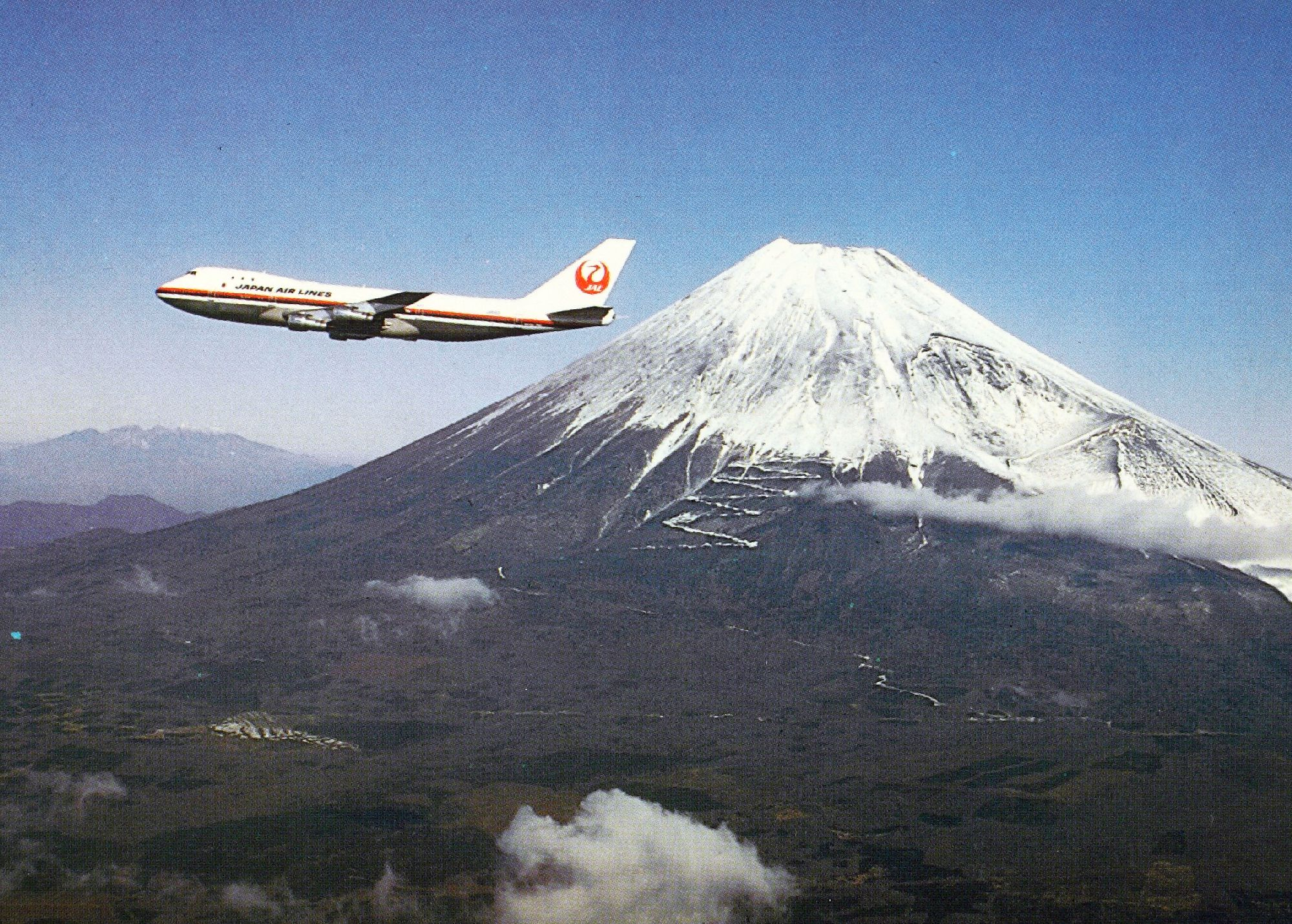 Catalog #: 01_00091335 Title: Boeing, 747 Corporation Name: Boeing Aircraft Designation: B-747 Tags: Boeing, 747 Additional Information: USA Pictured flying past Mt. Fuji.